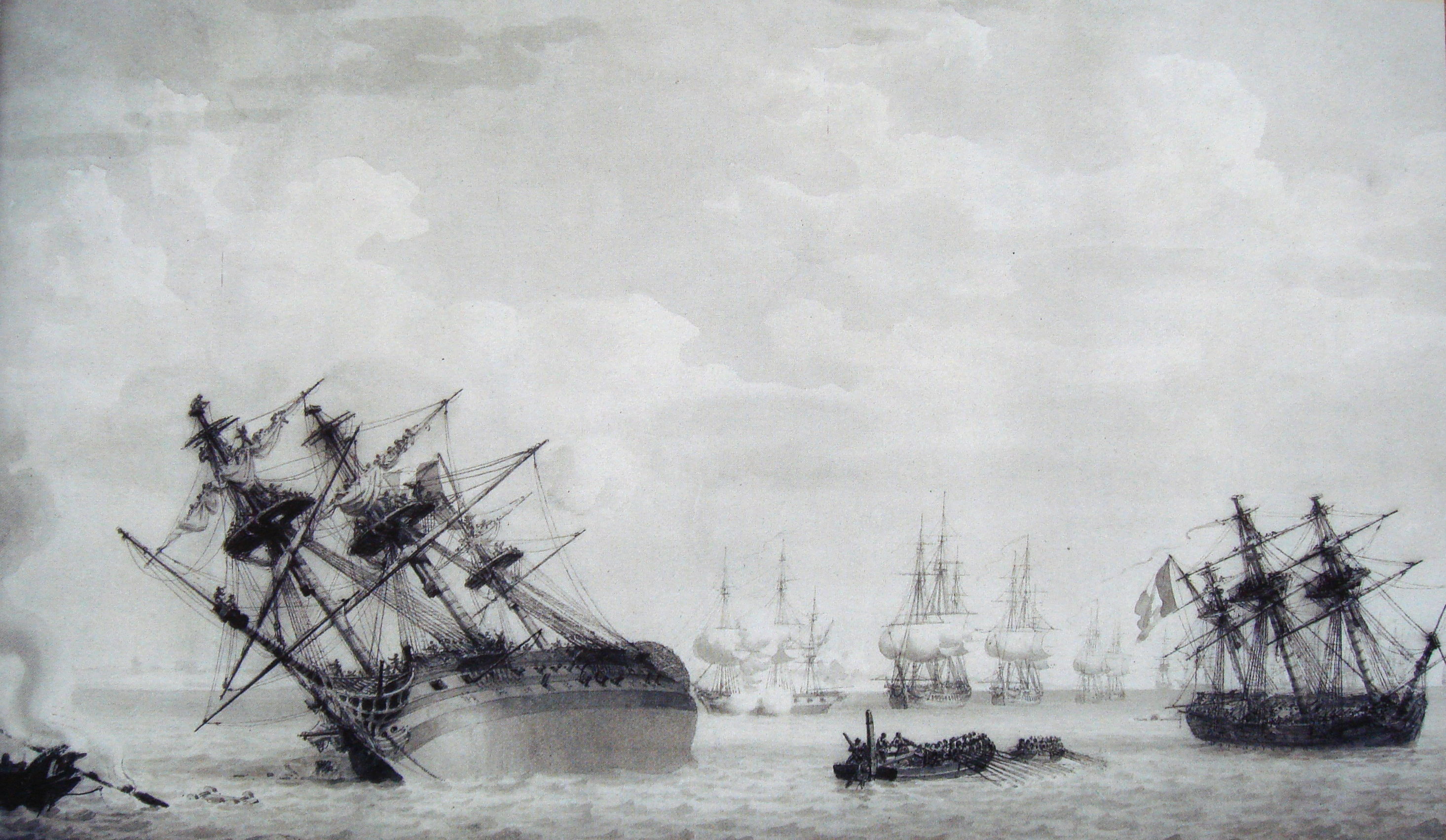 Regulus_stranded_on_the_shoals_of_Les_Palles_August_12_1809